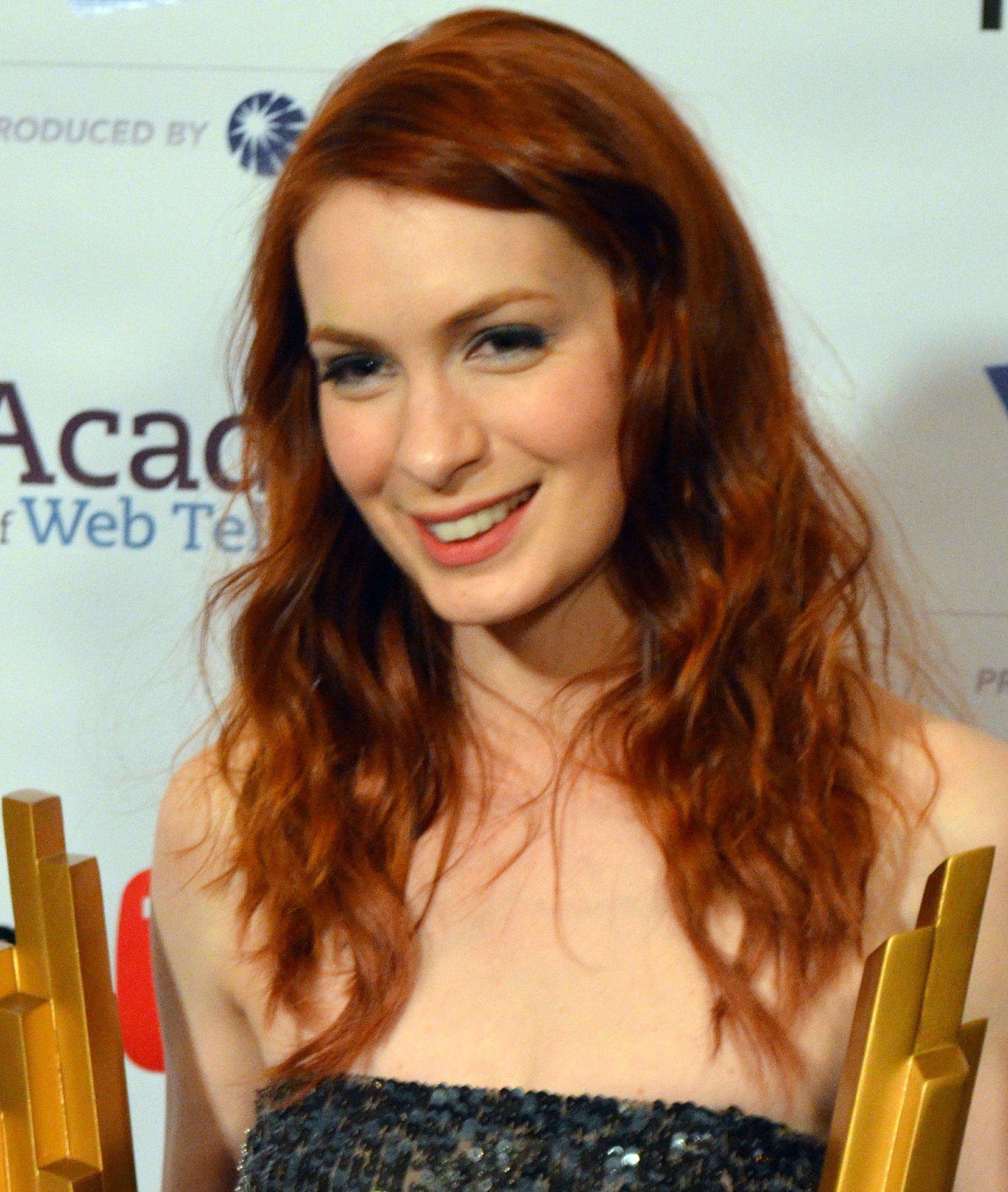 Felicia Day at the IAWTV Awards Red Carpet: CES 2012 Las Vegas.